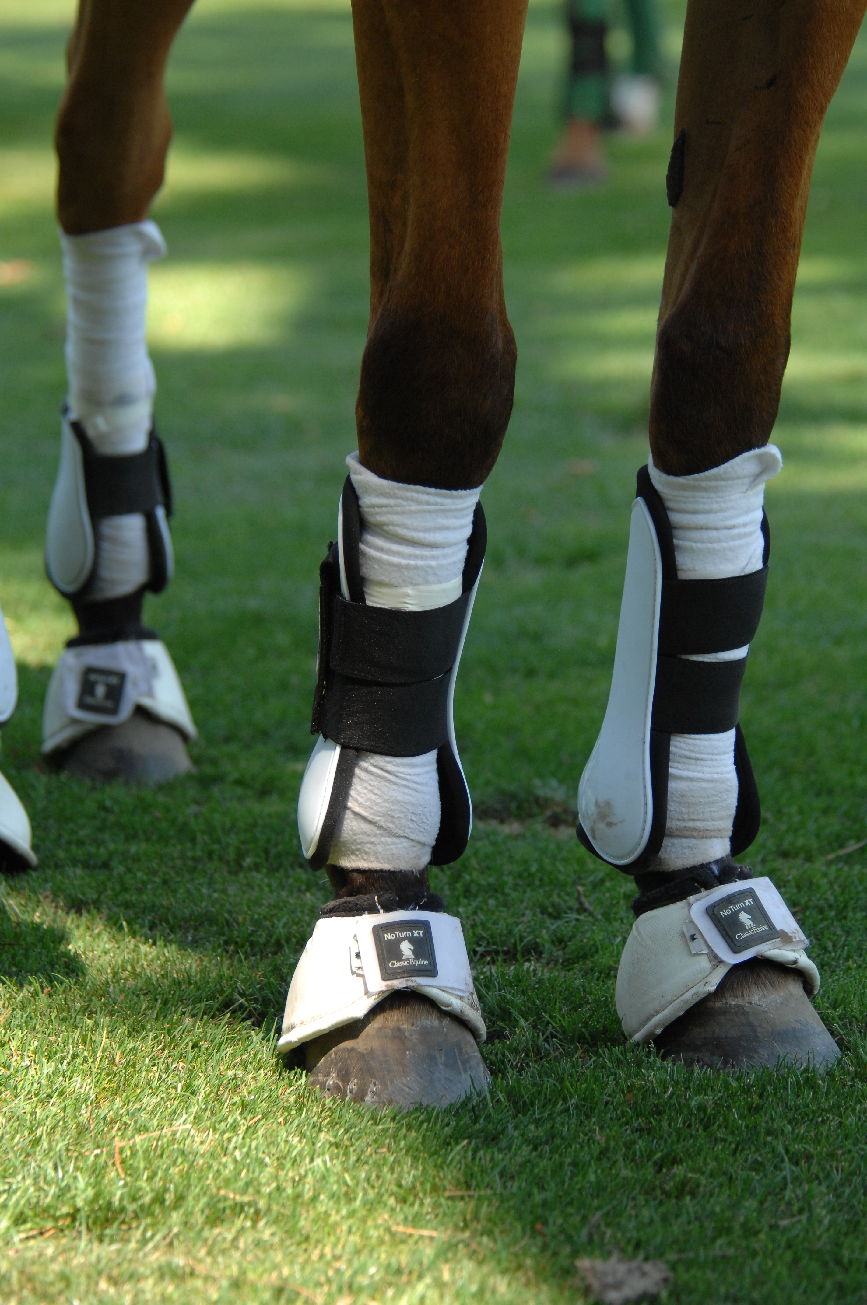 Polo horseleg protection